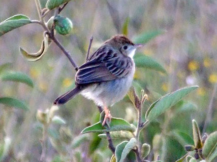 Tiny Cisticola (Cisticola nana) - Gilgil, Kenya